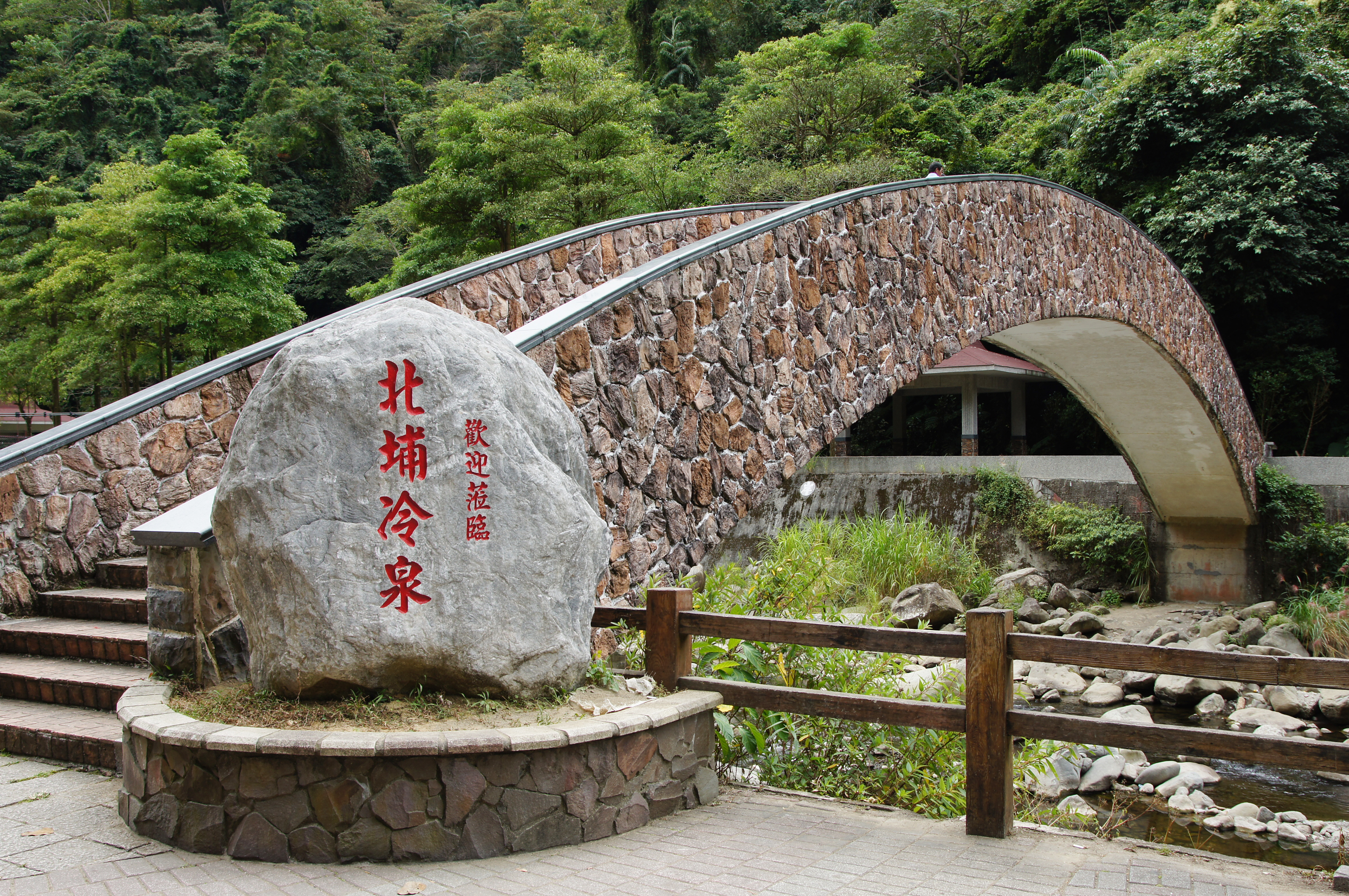 Beipu Cold Spring, Beipu Township, Hsinchu County, Taiwan中文（台灣）: 北埔冷泉